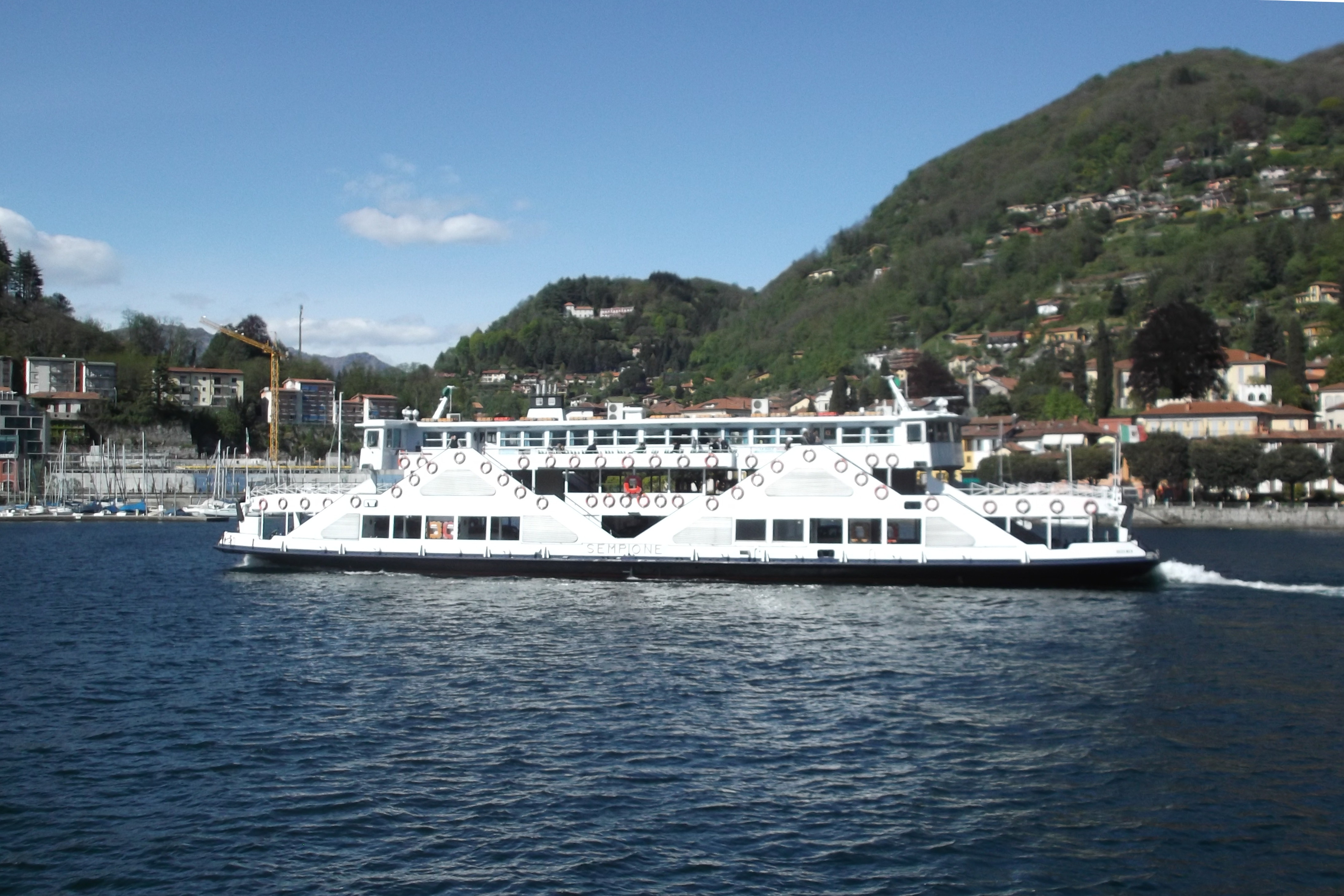 Passenger ship "Sempione" on Lake Maggiore in service between Laveno and Verbania